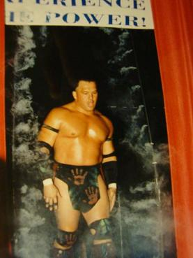 Chris Chavis aka Tatanka UCW